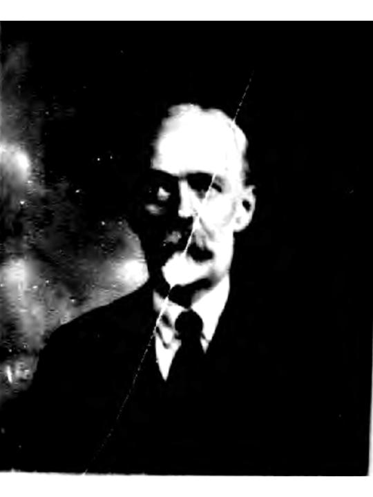 Robert Hawley Ingersoll from his 1921 passport application